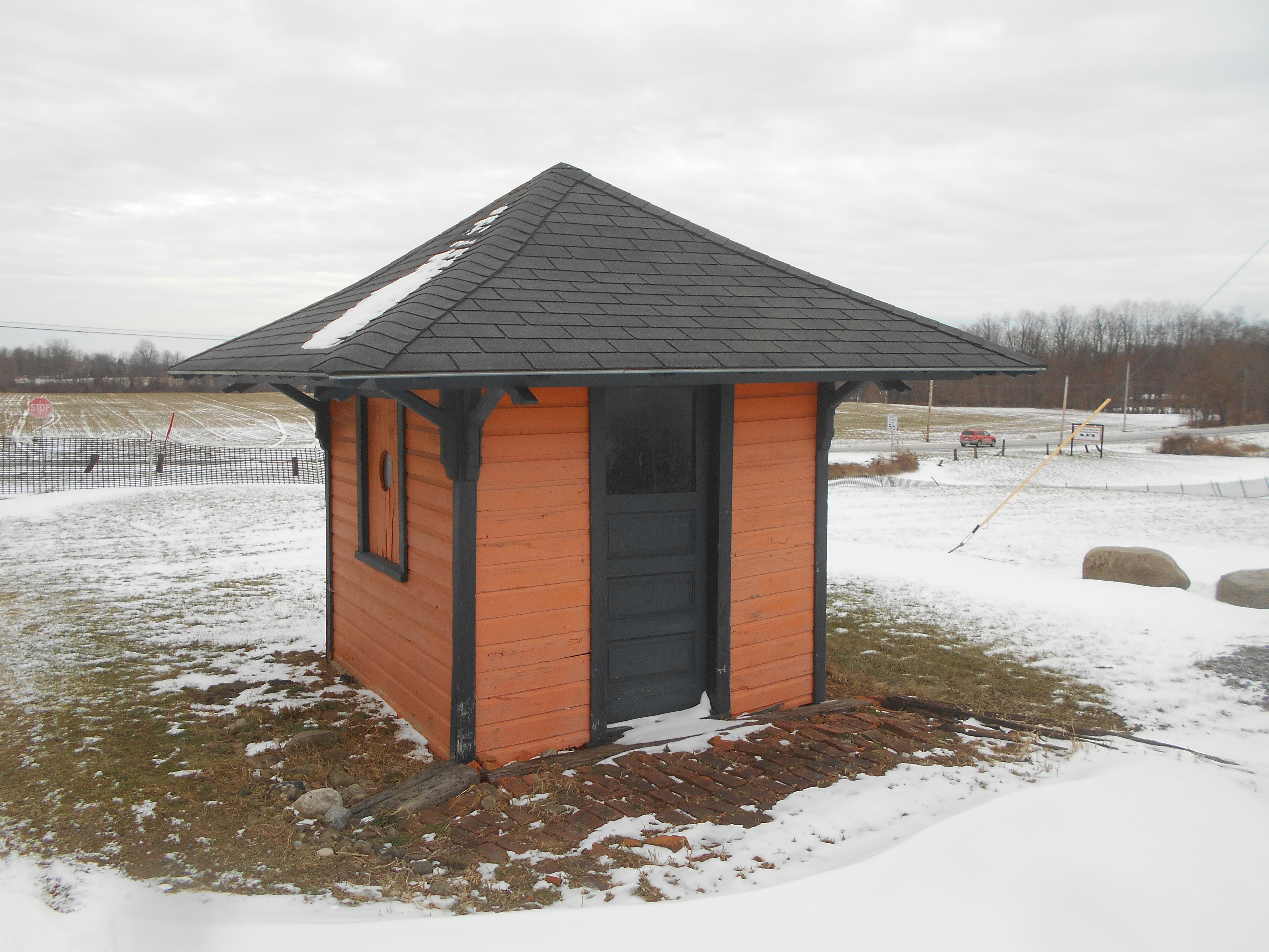 A former station for the Rochester and Eastern Rapid Railway located on the property of the New York Museum of Transportation moved from a location near Canandaigua, New York.